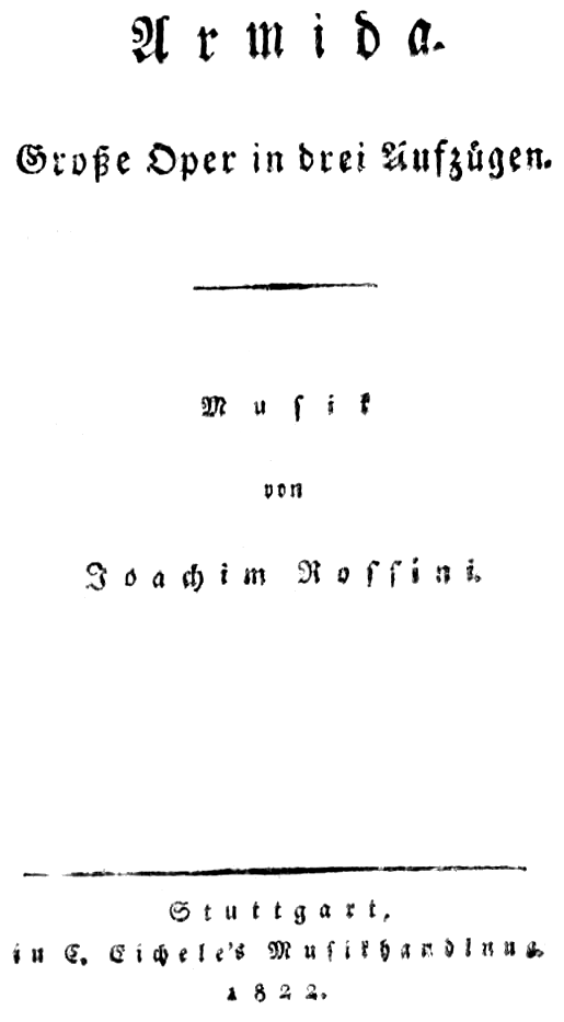 Gioachino Rossini - Armida - titlepage of the libretto - Stuttgart 1822